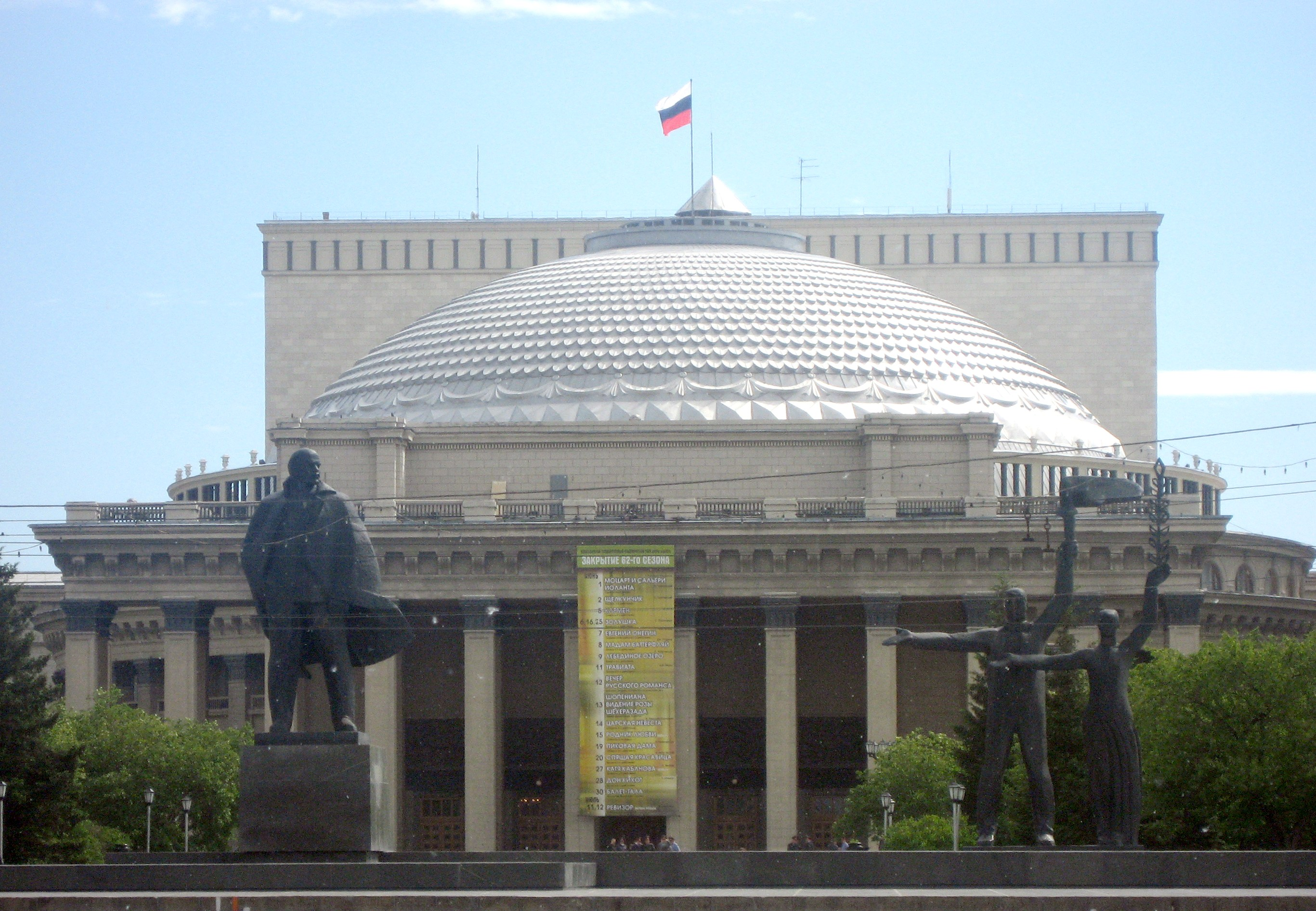 Novosibirsk opera and ballet theatre, Lenin Square